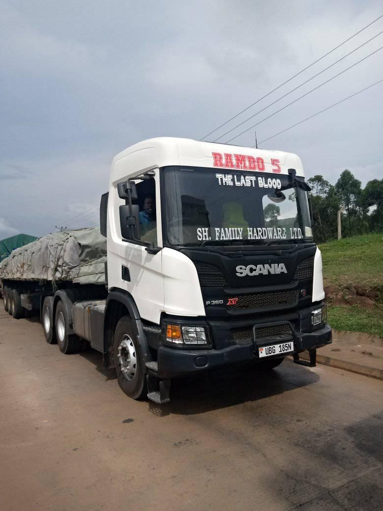 This is an image with the theme "Africa on the Move or Transport" from: Uganda